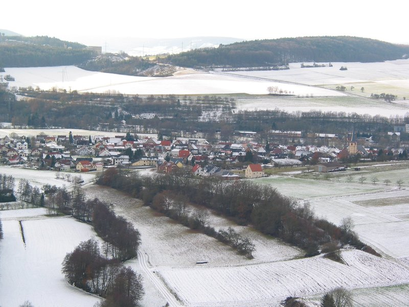 The Lower-Franconian village of Goessenheim (Germany). The picture was taken January 2006 from the Setzberg Hill (Ruine Homburg).